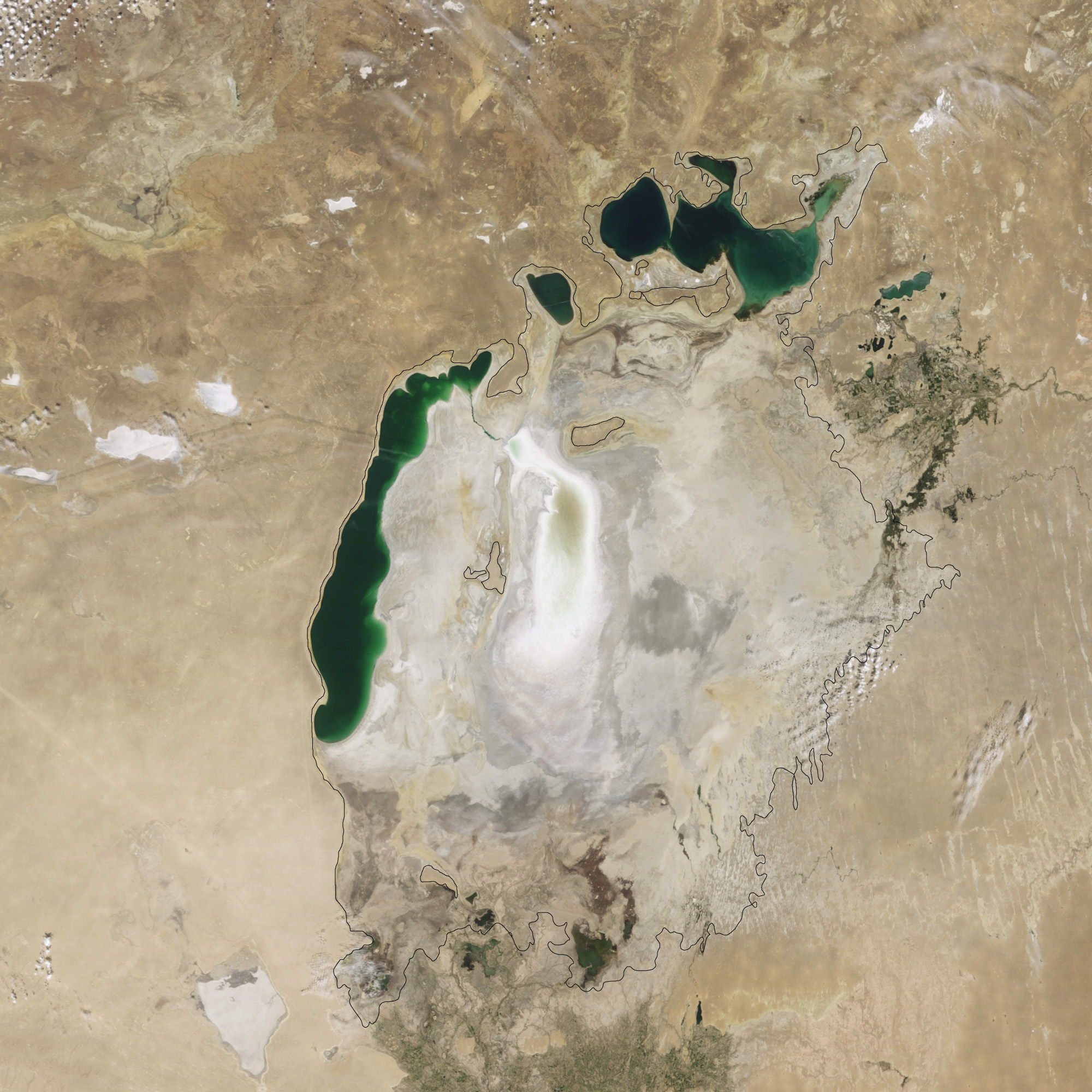 This true-colour image shows that by August 2009, virtually nothing remained of the Southern Aral Sea’s eastern lobe. Although the Northern Aral Sea (upper right) still appears healthy, the Southern Aral Sea consists of two isolated water bodies: an irregular oval shape directly south-west of the Northern Aral Sea, and the long, thin remainder of the Southern Aral Sea’s far western lobe. Although the faintest glimmers of blue-green appear in the eastern lobe, earth tones predominate, surrounded by a ghostly film of pale beige. Lake sediments from this depleted water body have provided ample material for frequent dust storms. The black line shows the lake shore ca. 1960.